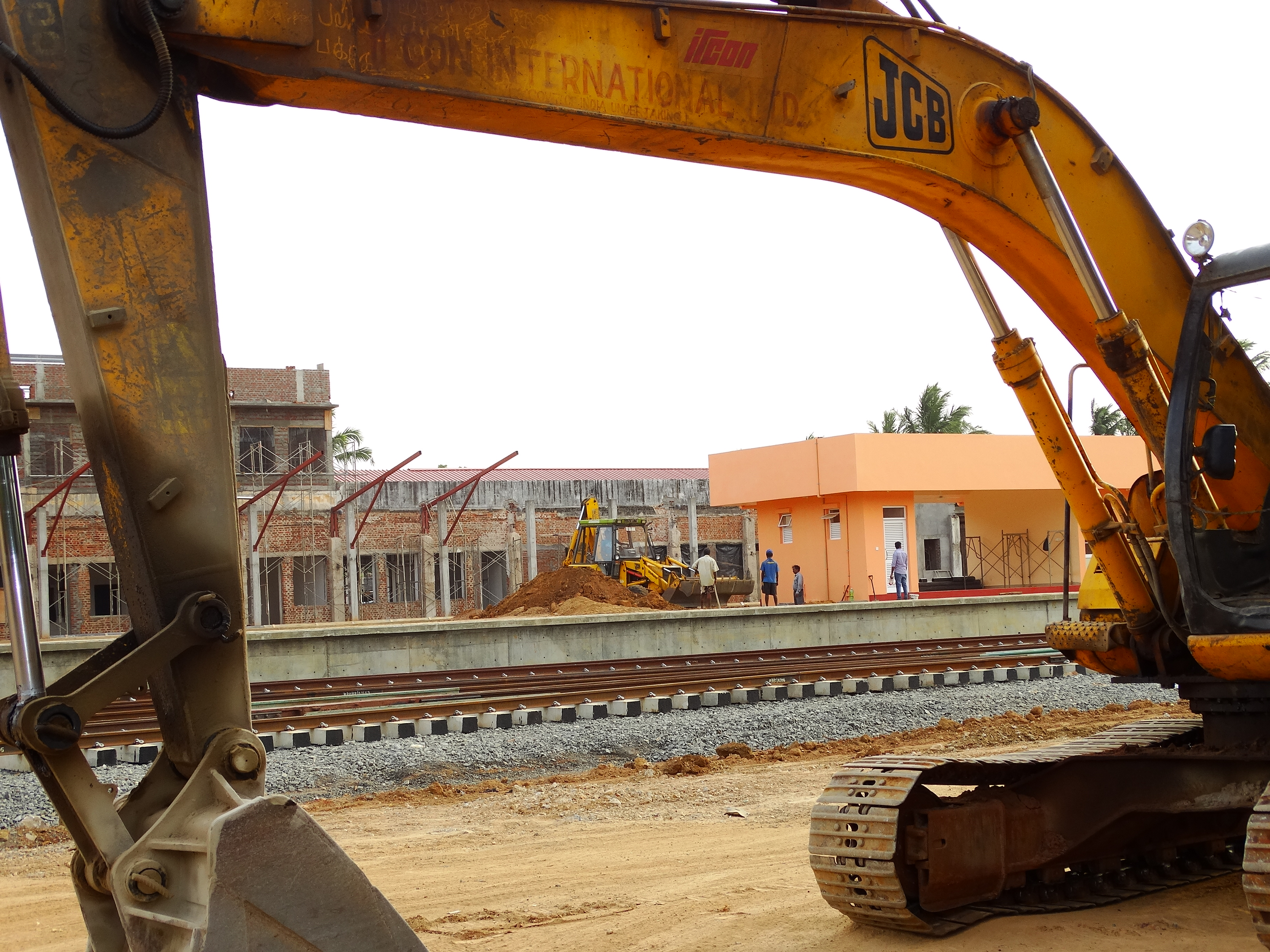 Construction Work Underway on War-Ruined Railway Station - Jaffna - Sri Lanka